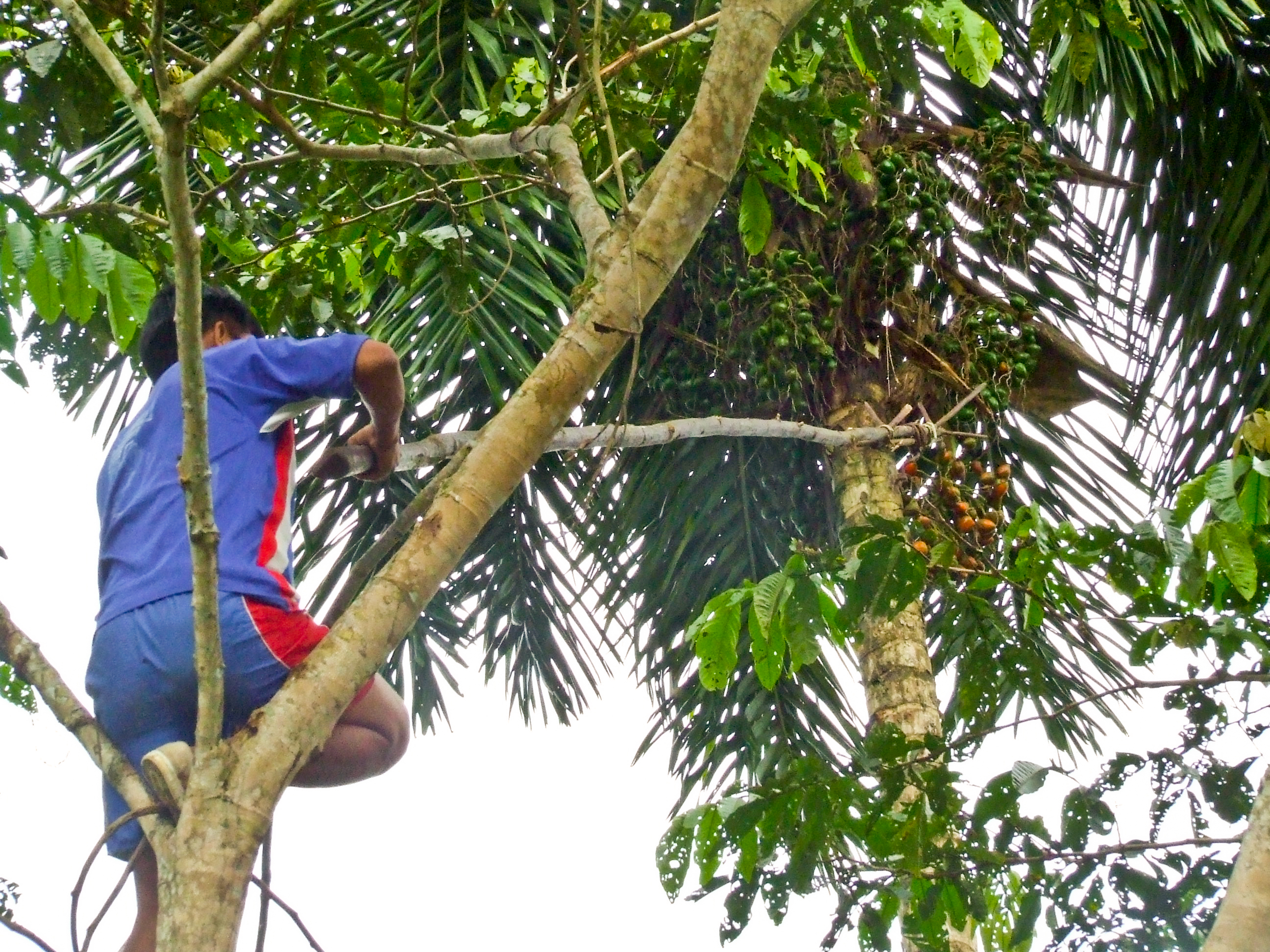 Chonta-Ernte auf einer Pfirsichpalme, Shuar-Indianer in Ecuador